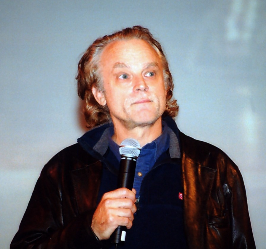 American actor Brad Dourif at the Lord of the Rings-Convention Ring*Con 2002 in Bonn, Germany.